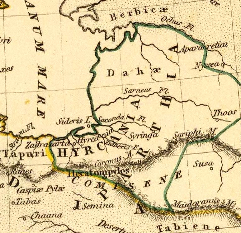 Persis, Parthia, Armenia, etc. Fenner Sc., Paternoster Row. (London, Joseph Thomas, 1835)